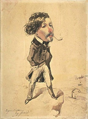 Caricature of the artist and theatrical designer, Eugène Cicéri (1813-1890)